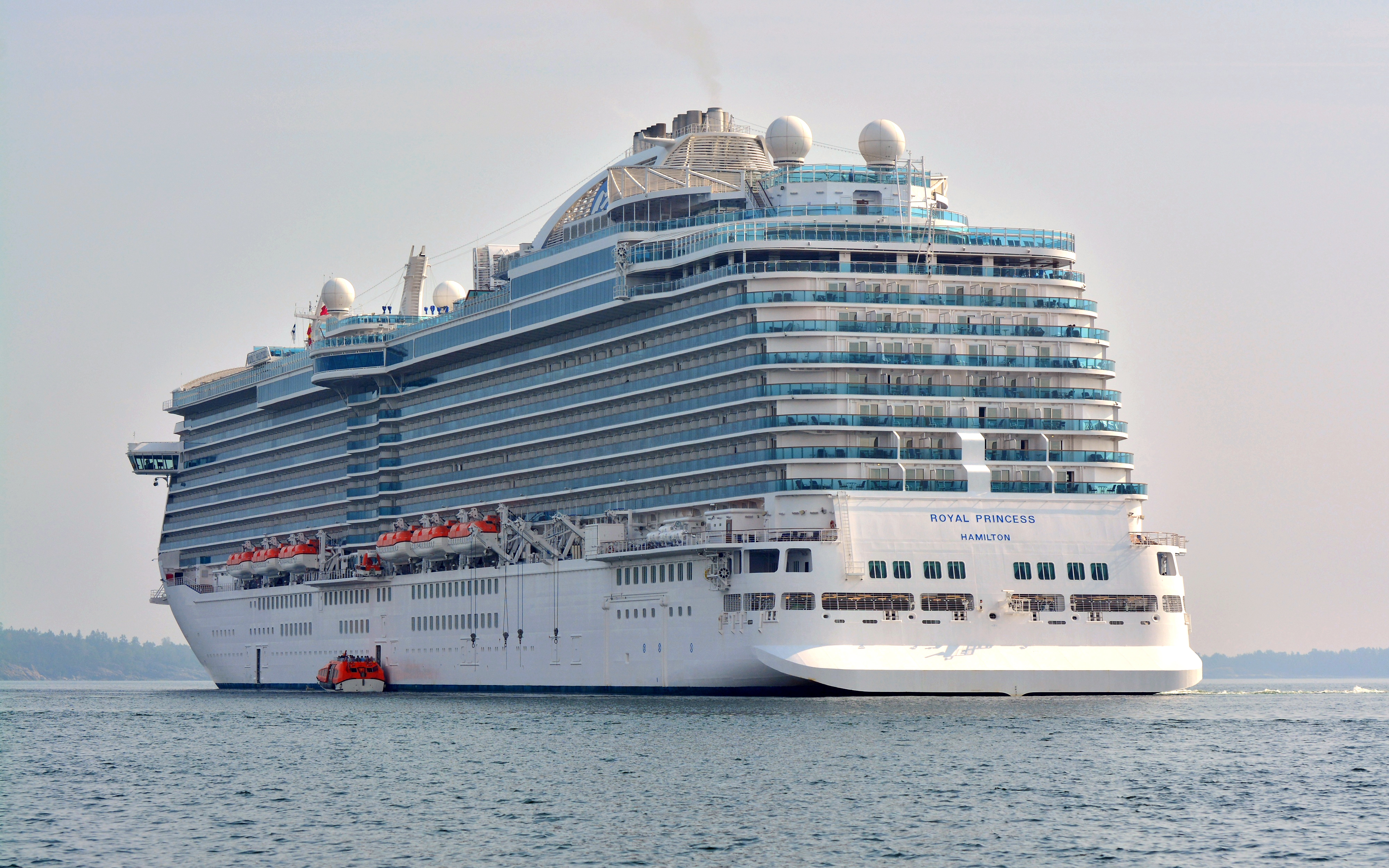 Royal Princess near Nynäshamn, Sweden.